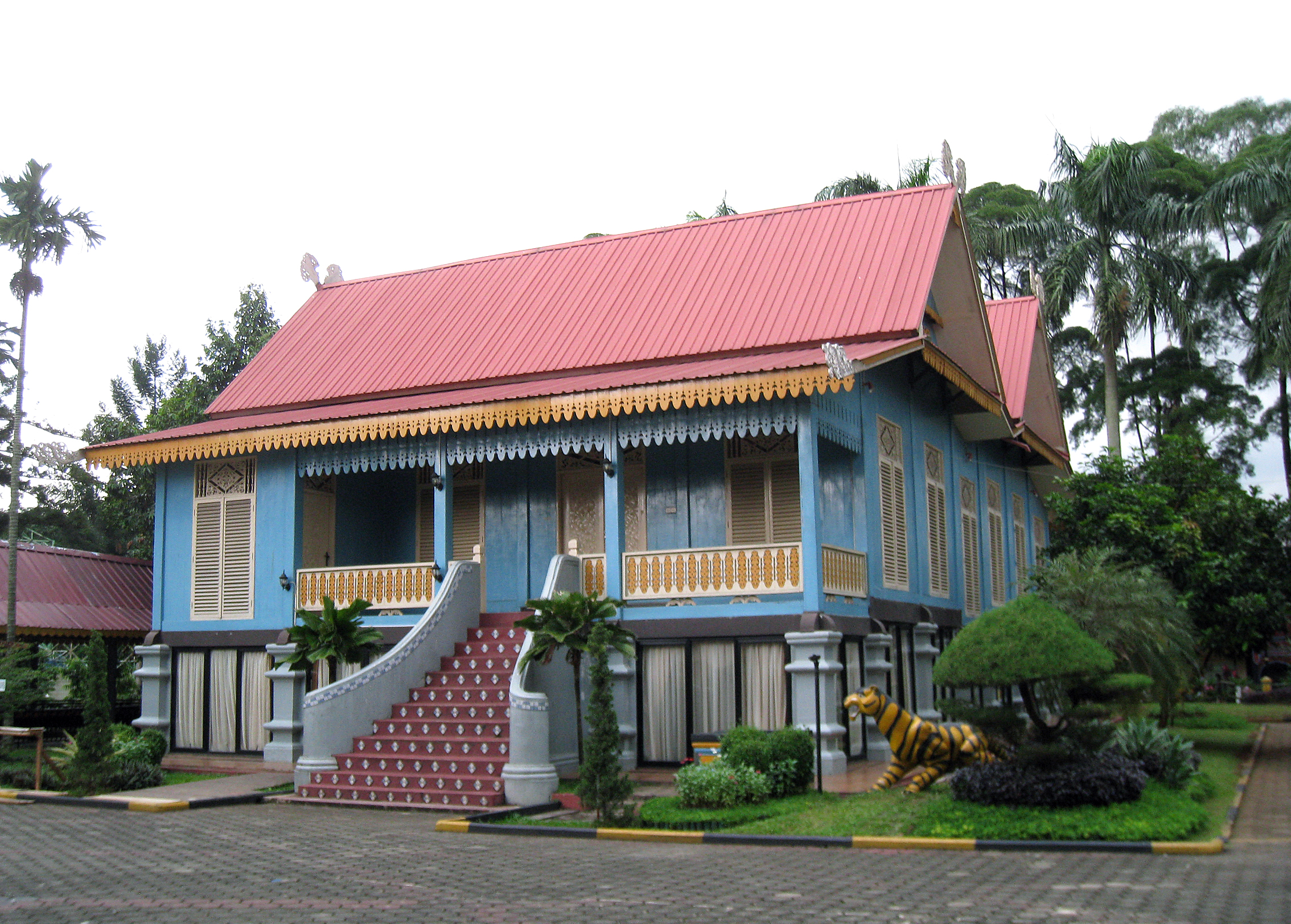 Rumah Lipat Kajang style, a Malay traditional house with at Riau Pavilion, Taman Mini Indonesia Indah, Jakarta.